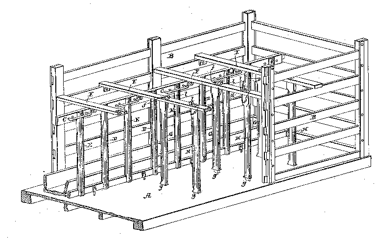 Diagram showing a cutaway view of the sides and interior of a stock car as designed by Zadok Street in the 19th century